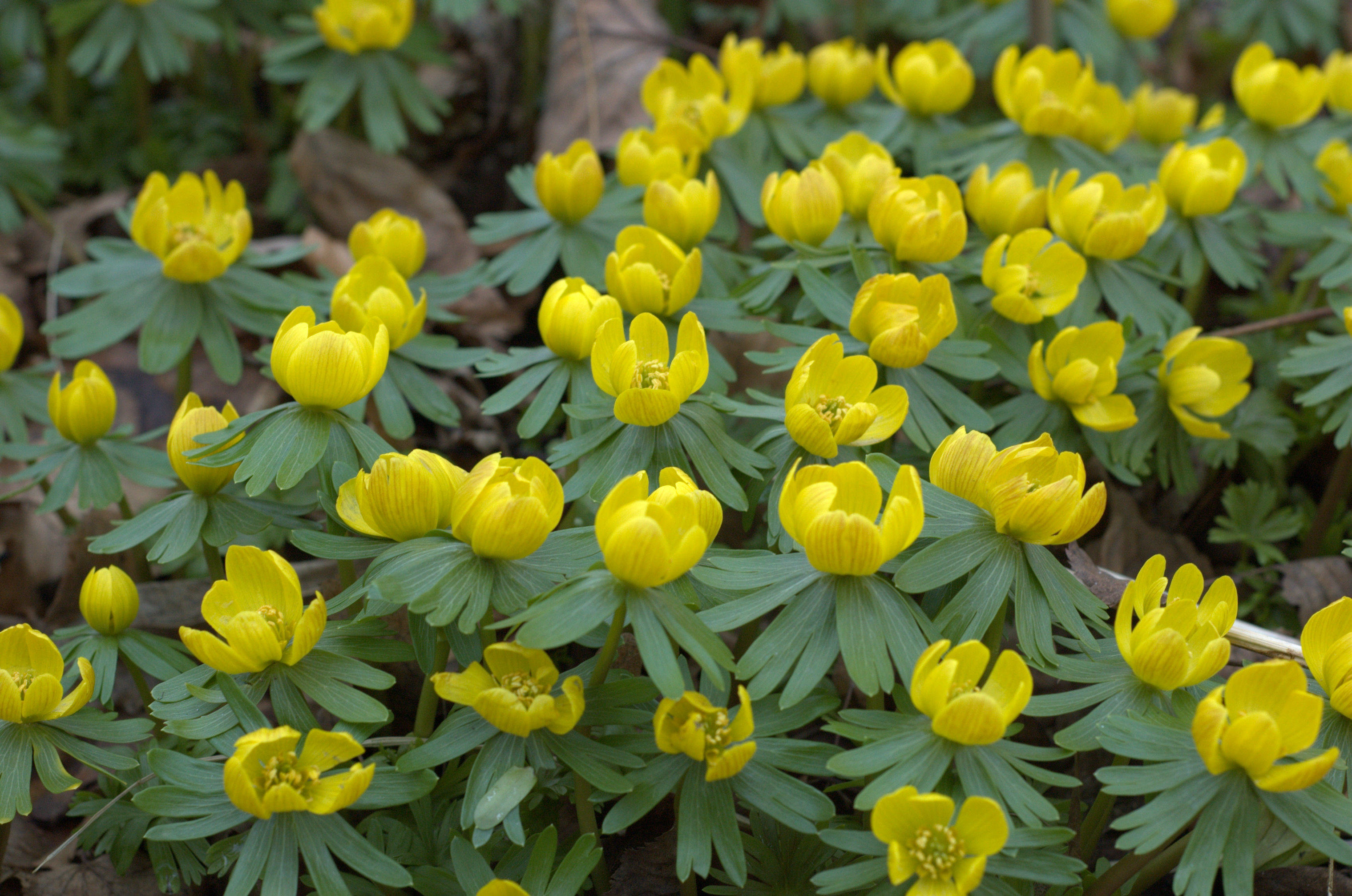 Winter aconite. Flowers of the species Eranthis hyemalis.